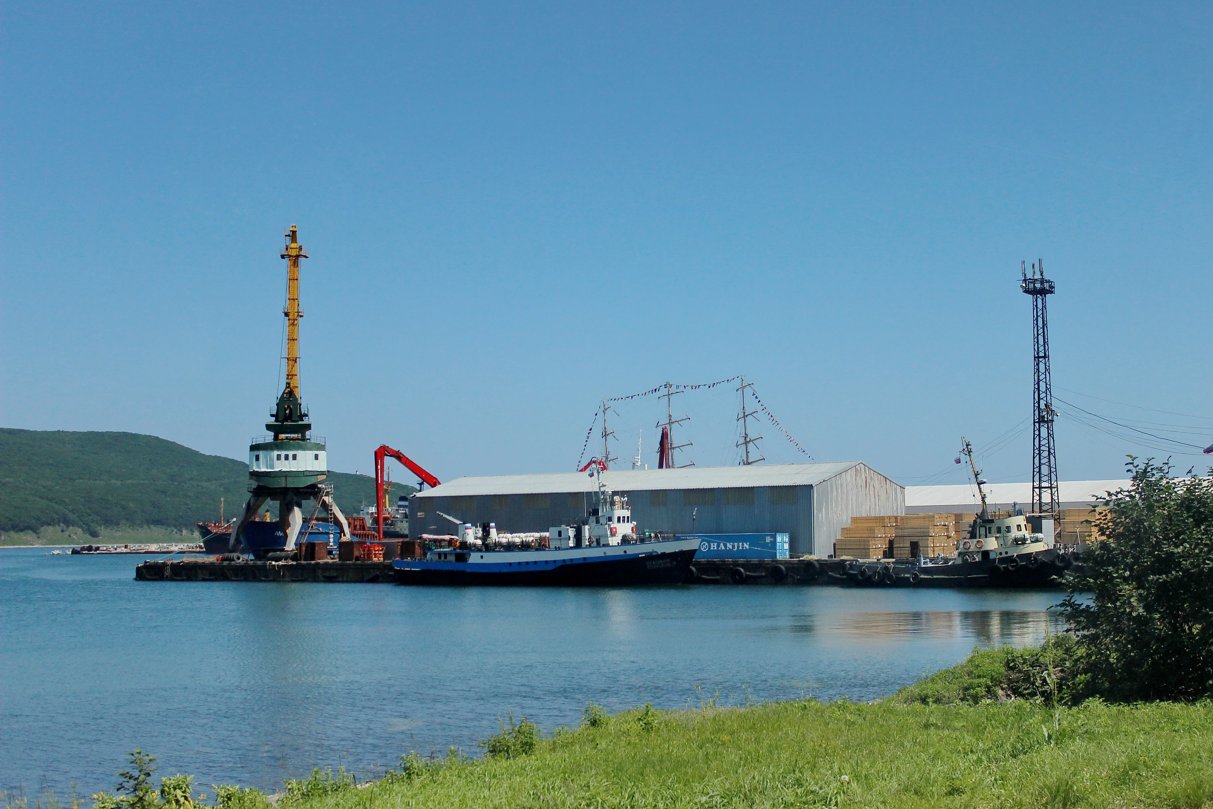 Wharf of the port fleet in the port Plastun. 2012.